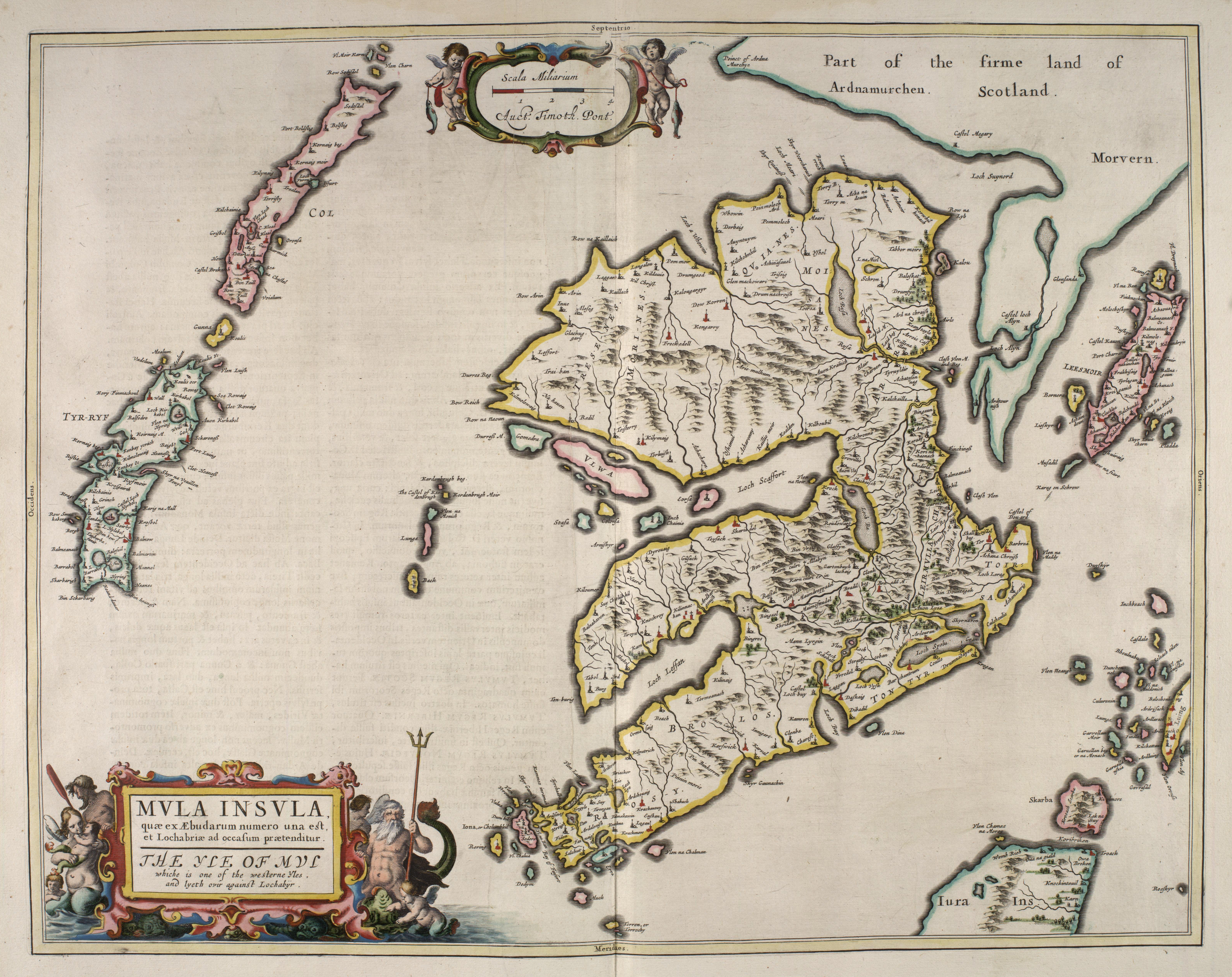 MVLA INSVLA - The Isle of Mull